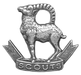 Emblem of Ladakh Scouts